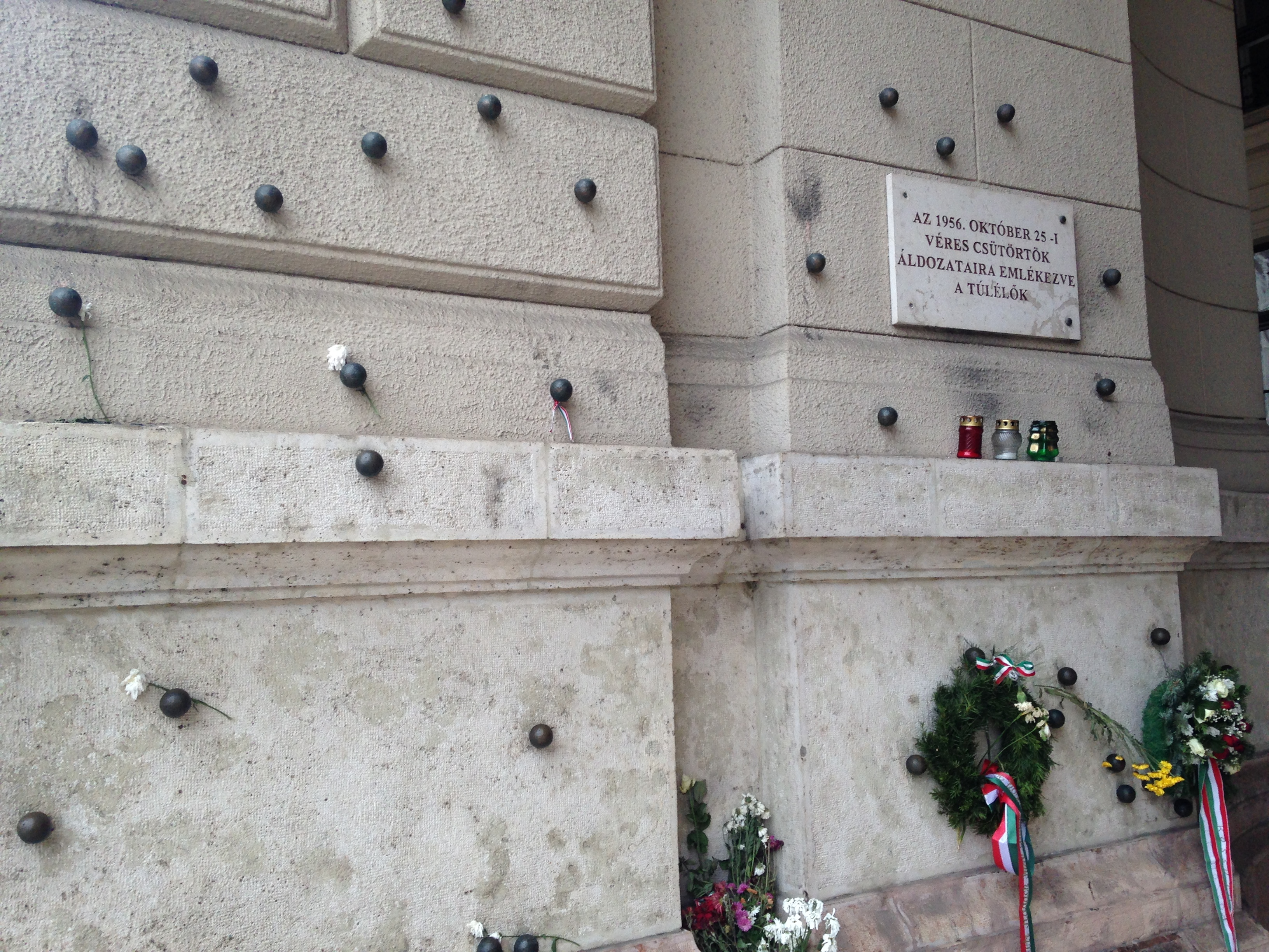 Bullet Holes as memorial about the Hungarian Revolution of 1956 by József Kampfl scultor in Kossuth Square, BudapestAz 1956. október 25-i sortűz áldozatainak emléke (Kampfl József, Callmeyer Ferenc (építész), 2001). - V. kerület, Kossuth Lajos tér 11., Földművelésügyi és Vidékfejlesztési Minisztérium jobb oldali árkádsora.